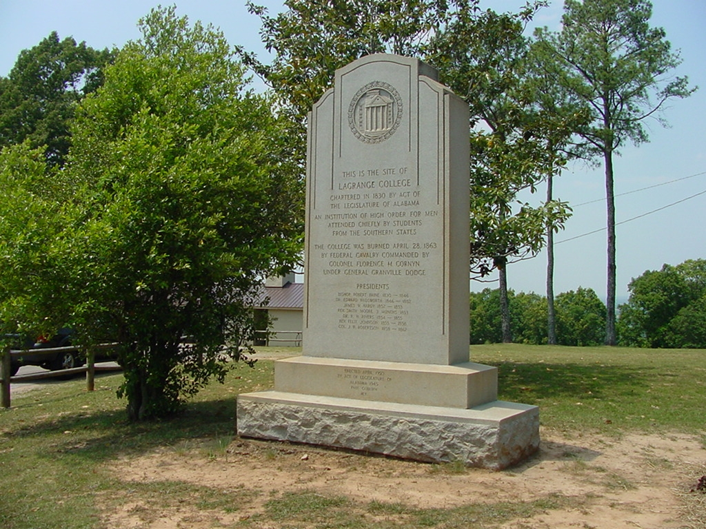 Taken by me at the site of LaGrange College, May 22, 2007.